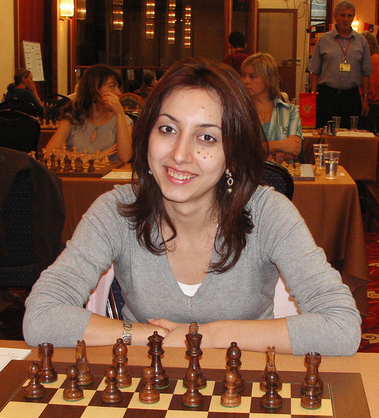 WGM Lela Javakhishvili (Georgia), Heraklion 2007